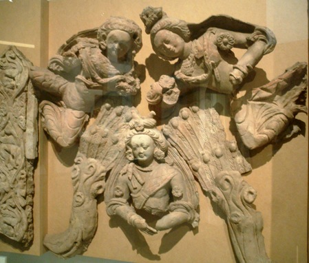 "Heroic gesture of the Bodhisattva", 6th-7th century terracotta, Tumshuq (Xinjiang). Musee Guimet, Paris.